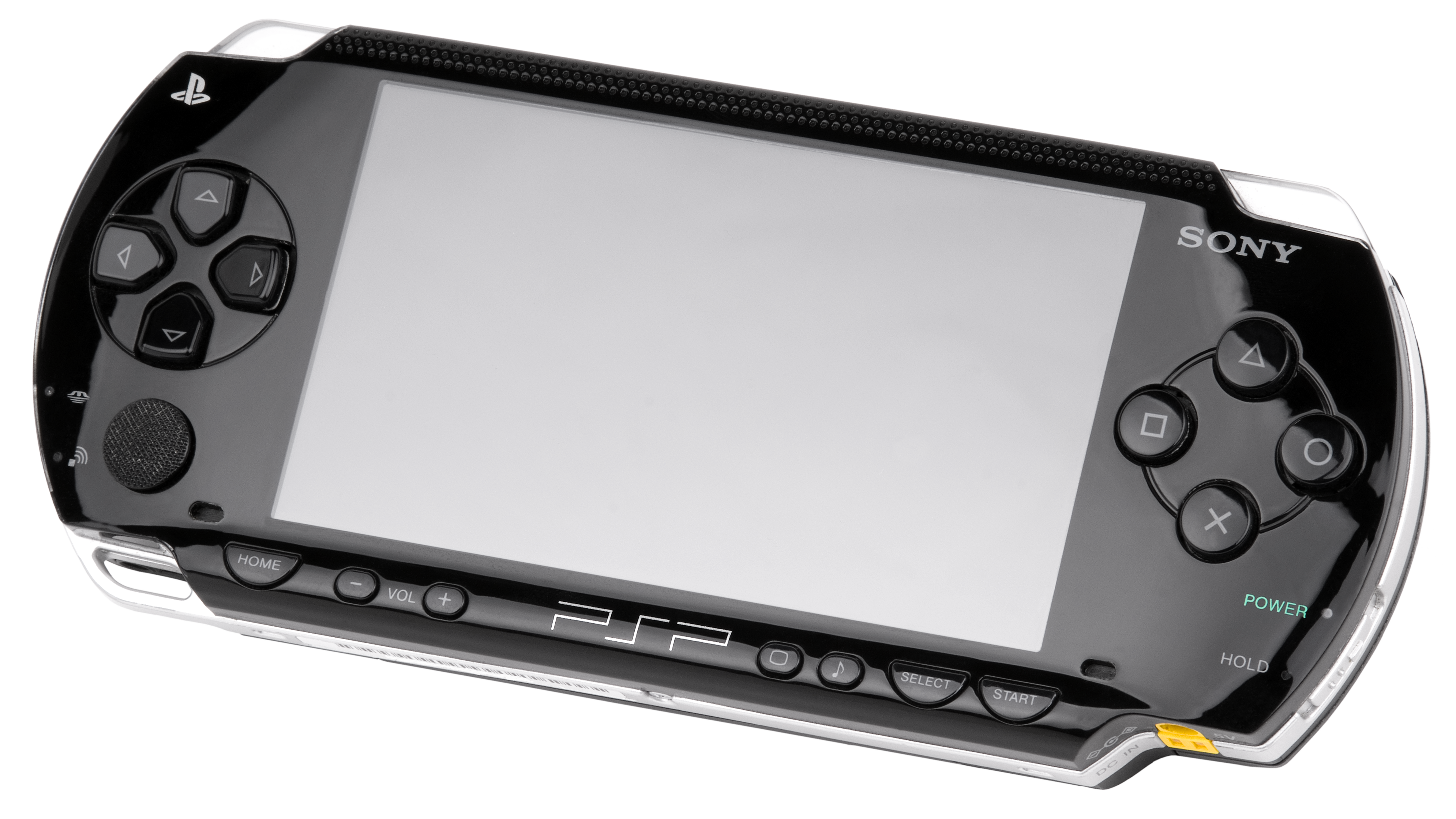 A North American Sony PSP-1000 handheld video game console.